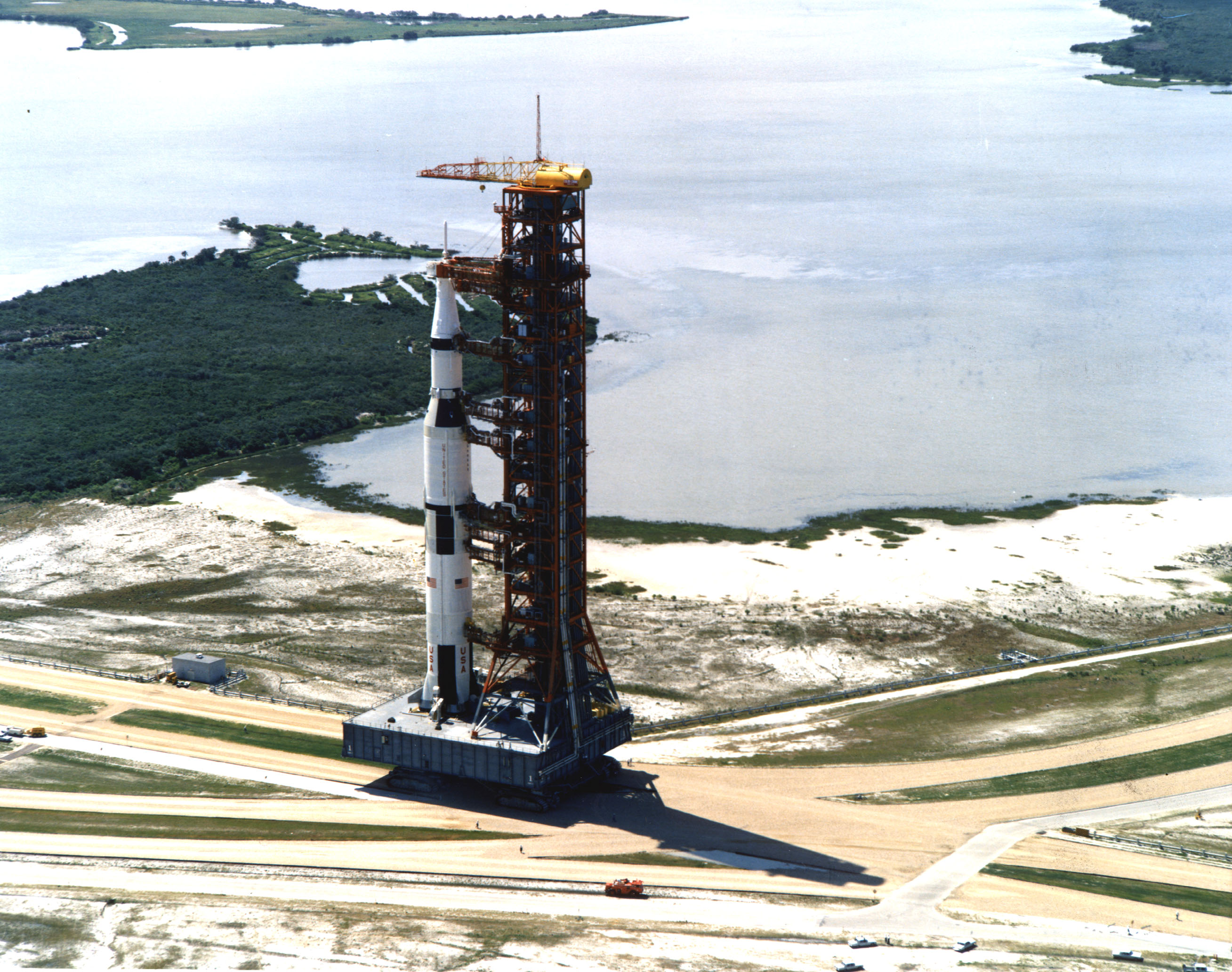 Carrying the Apollo 11 Saturn V space vehicle and mobile launcher, the crawler-transporter inches its way to the hardstand atop Launch Complex 39A where it positioned the 12.5-million-pound load on support pedestals. (Unfueled Saturn V weighs 1/2 million pounds.) Rollout began at 12:30 p.m. EDT today and was completed at 7:46 p.m. The transporter carried the vehicle along the 3.5- mile crawlerway at an average speed of less than one mile per hour. The 363-foot-high space vehicle is to launch Apollo 11 Astronauts Neil A. Armstrong, Michael Collins and Edwin E. Aldrin Jr. on the Nation's first manned lunar landing mission.